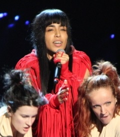 Loreen performs on Melodifestivalen 2011.